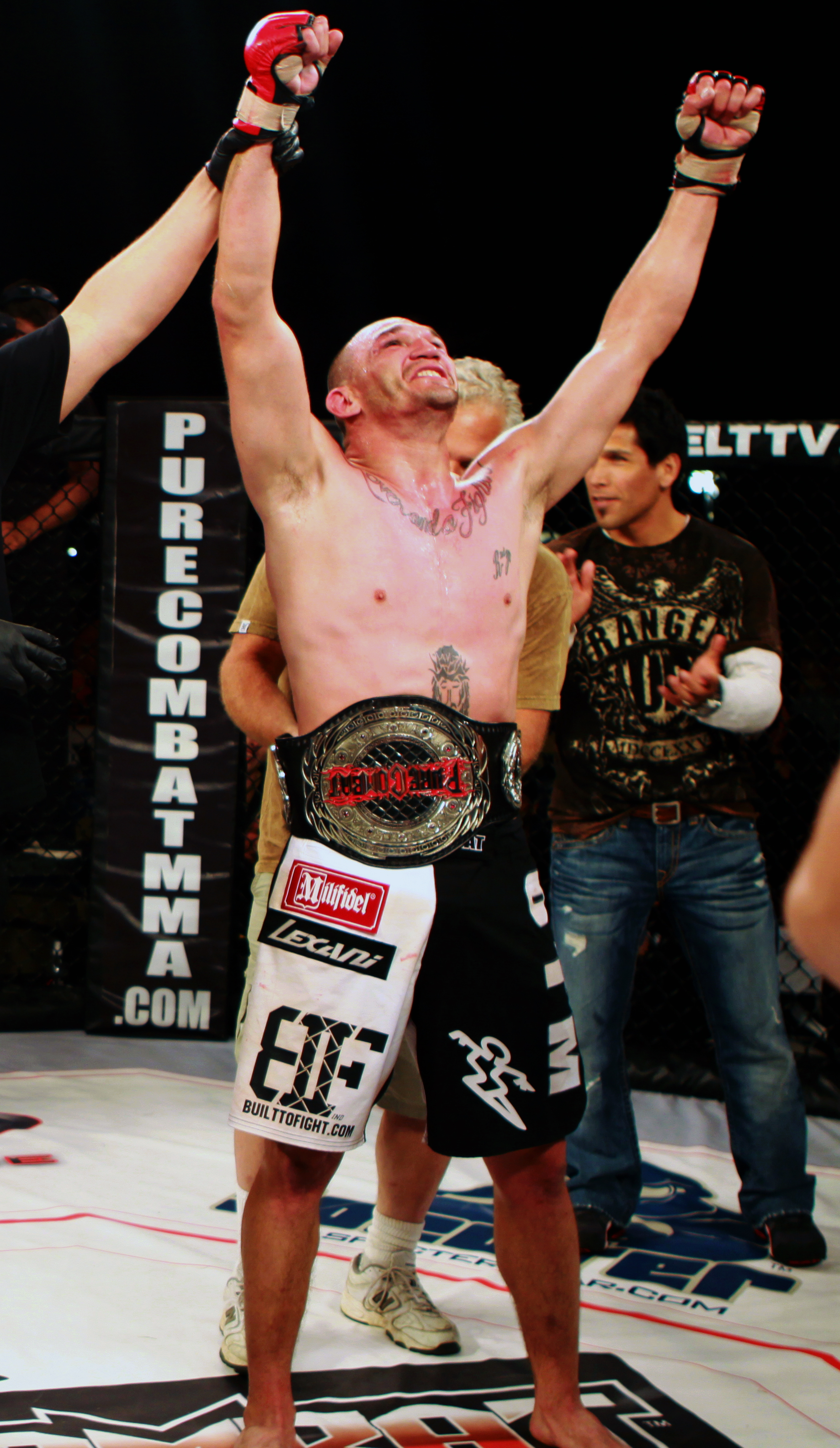 Mixed Martial Artist Anthony Ruiz, raises his arms in victory after winning the PureCombat championship belt from Kenny “The Crusher” McCorkell at the MMA Cage Fight Night at Camp Pendleton’s 11 Area field, May 7. The Marine Corps Community Services sponsored event, featured 18 competitors from PureCombat and Hitman Fights organizations, and was free for all base occupants. The fight night included 9 brawls, with the final bout being a competition for the PureCombat championship belt. (the extract from an original text)